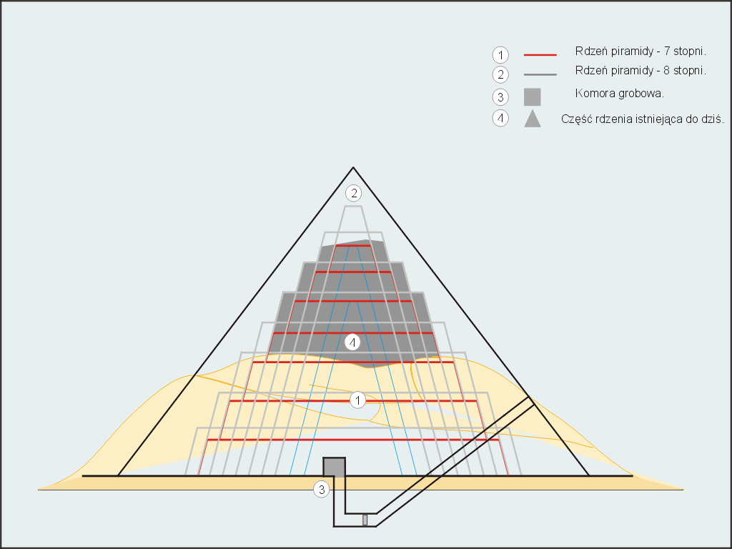 Schematic drawing showing the steps to the pyramid at Meidum, first built as a step pyramid - 7 positions, later extended to the Step Pyramid 8 progressive and eventually developed into the pyramid proper, or the shape of the pyramid.